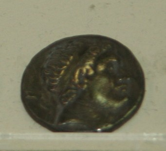 Silver tetradrachm, Bactria, Euthydemus